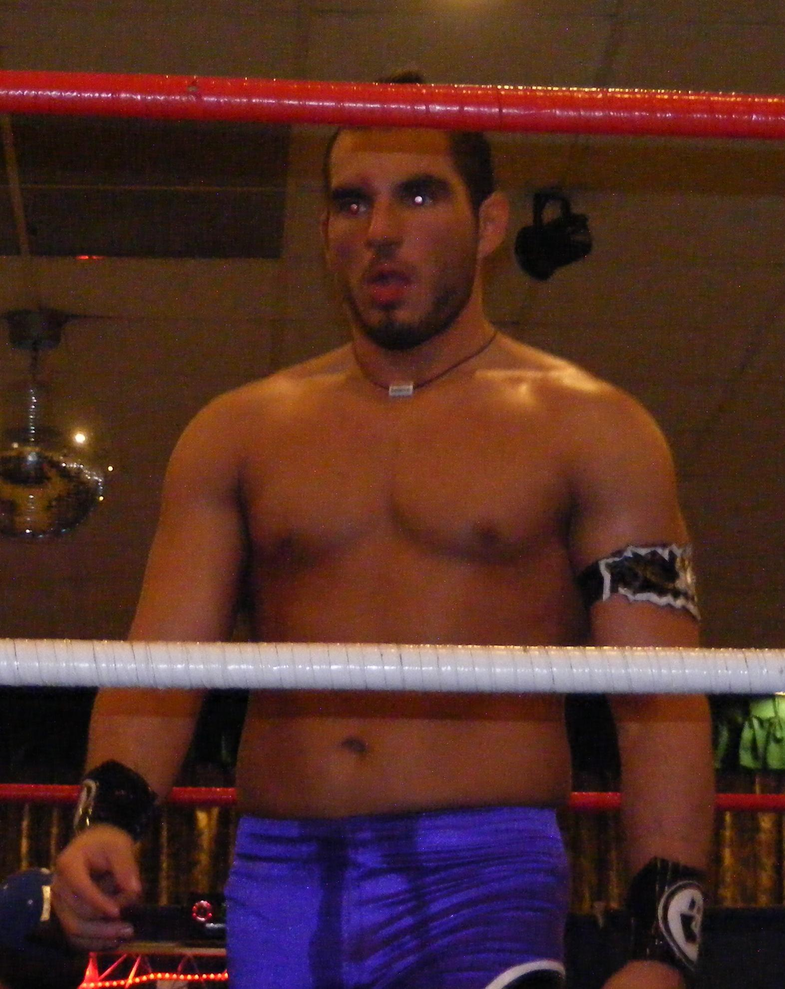 Johnny Gargano at a Chikara show in Hamden, CT on October 24, 2010.